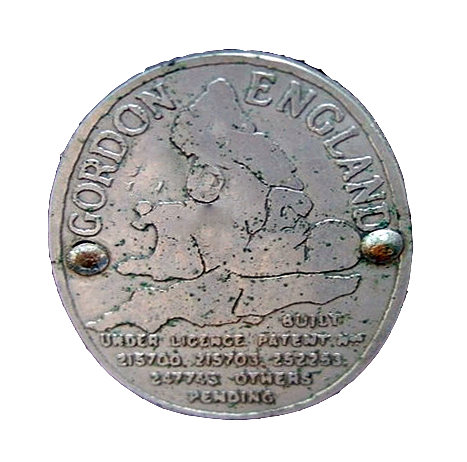 Gordon England badge